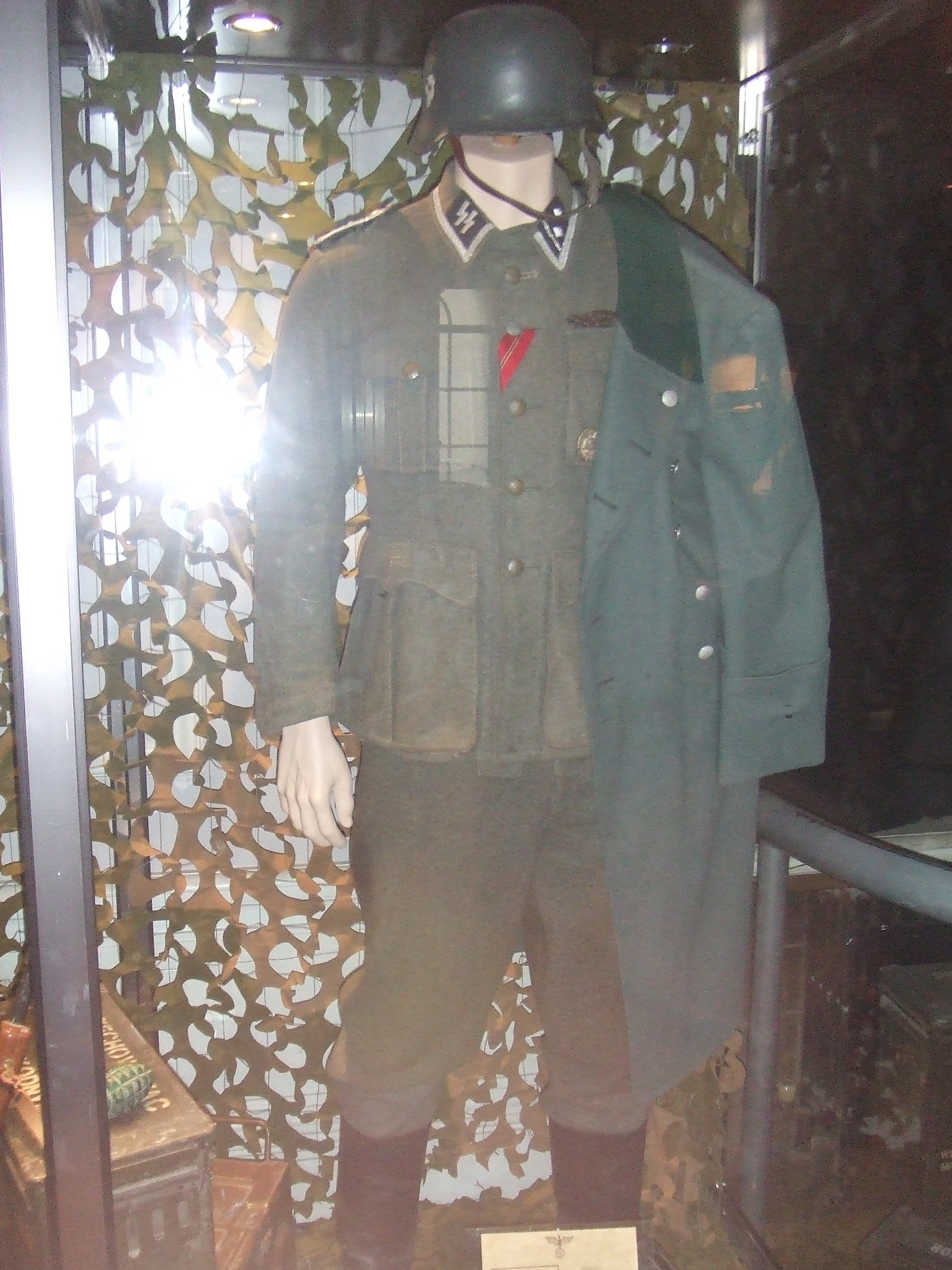 World War 2 German Waffen-SS uniform, costume from the film Indiana Jones and the Last Crusade displayed at the London Film Museum.